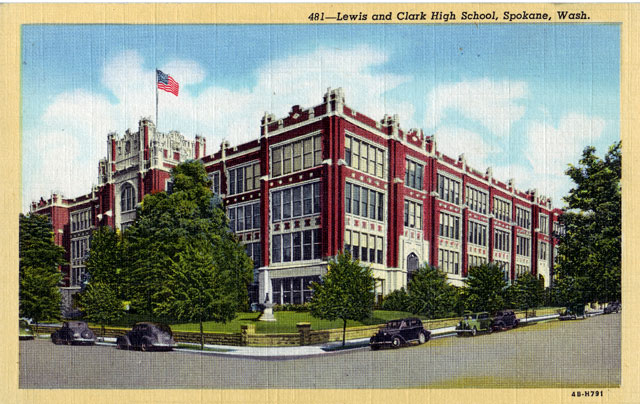 picture of Lewis and Clark High School